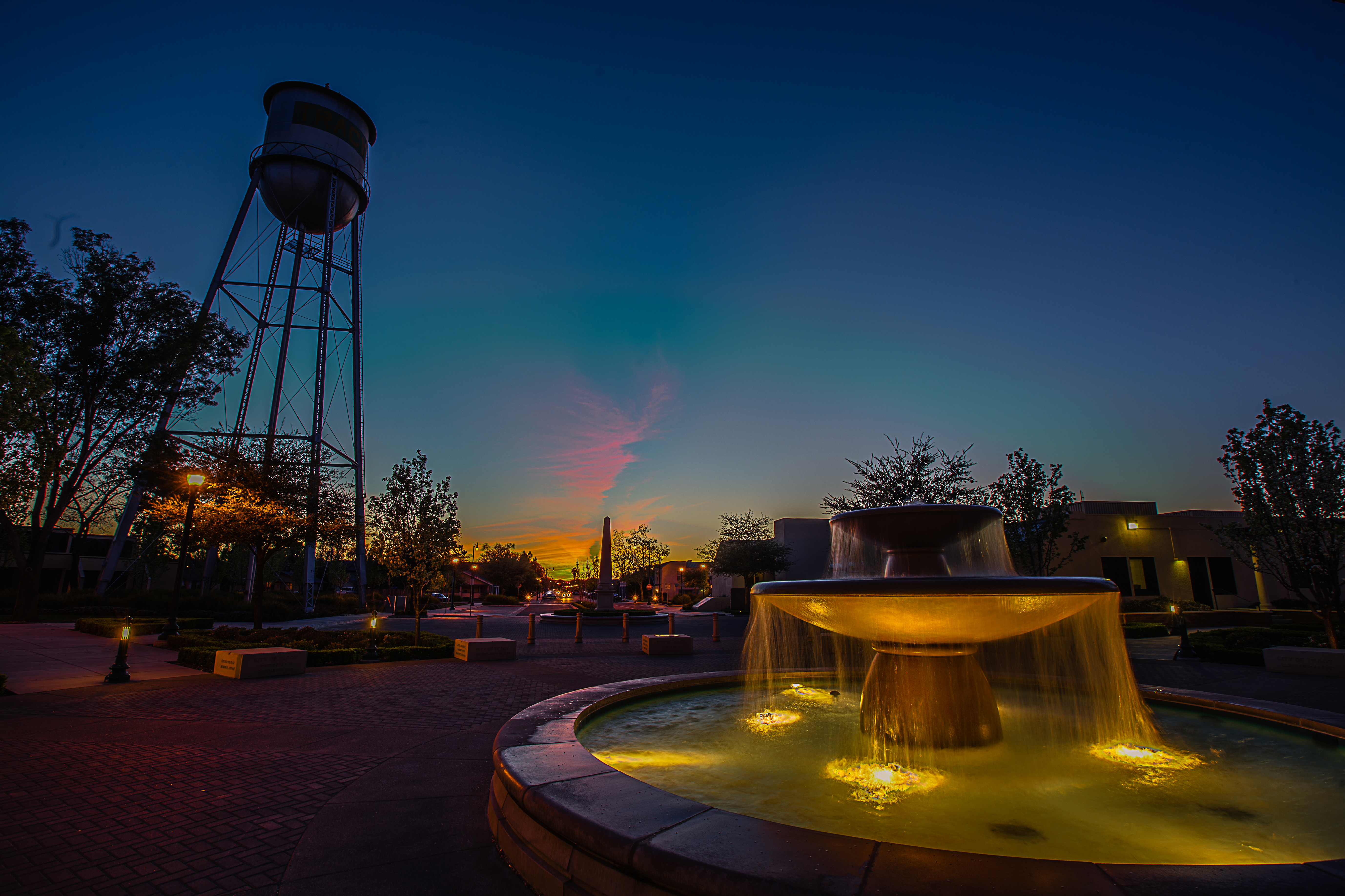 Tracy City Hall